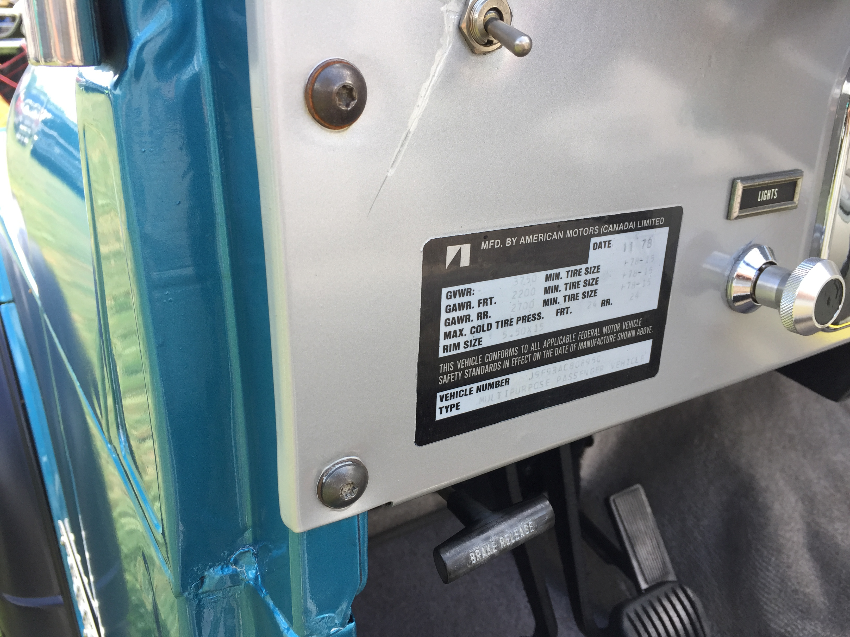 1979 Jeep CJ7 Renegade finished in blue, with some custom modifications. This Jeep made by American Motors Corporation (Canada) Limited. Picture taken at the 52nd Annual "Das Awkscht Fescht" antique car show in Macungie, Pennsylvania.